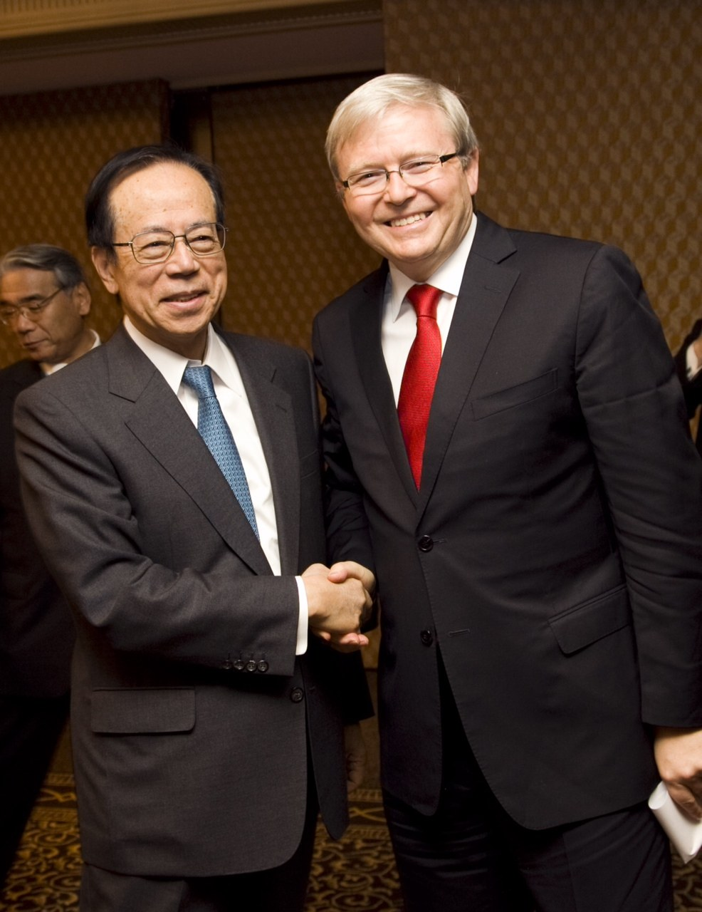 Kevin Rudd, Minister for Foreign Affairs, met Yasuo Fukuda, Chairman of the Boao Forum for Asia, at the Boao Forum for Asia Conference in Perth City, Western Australia State on July, 2011.